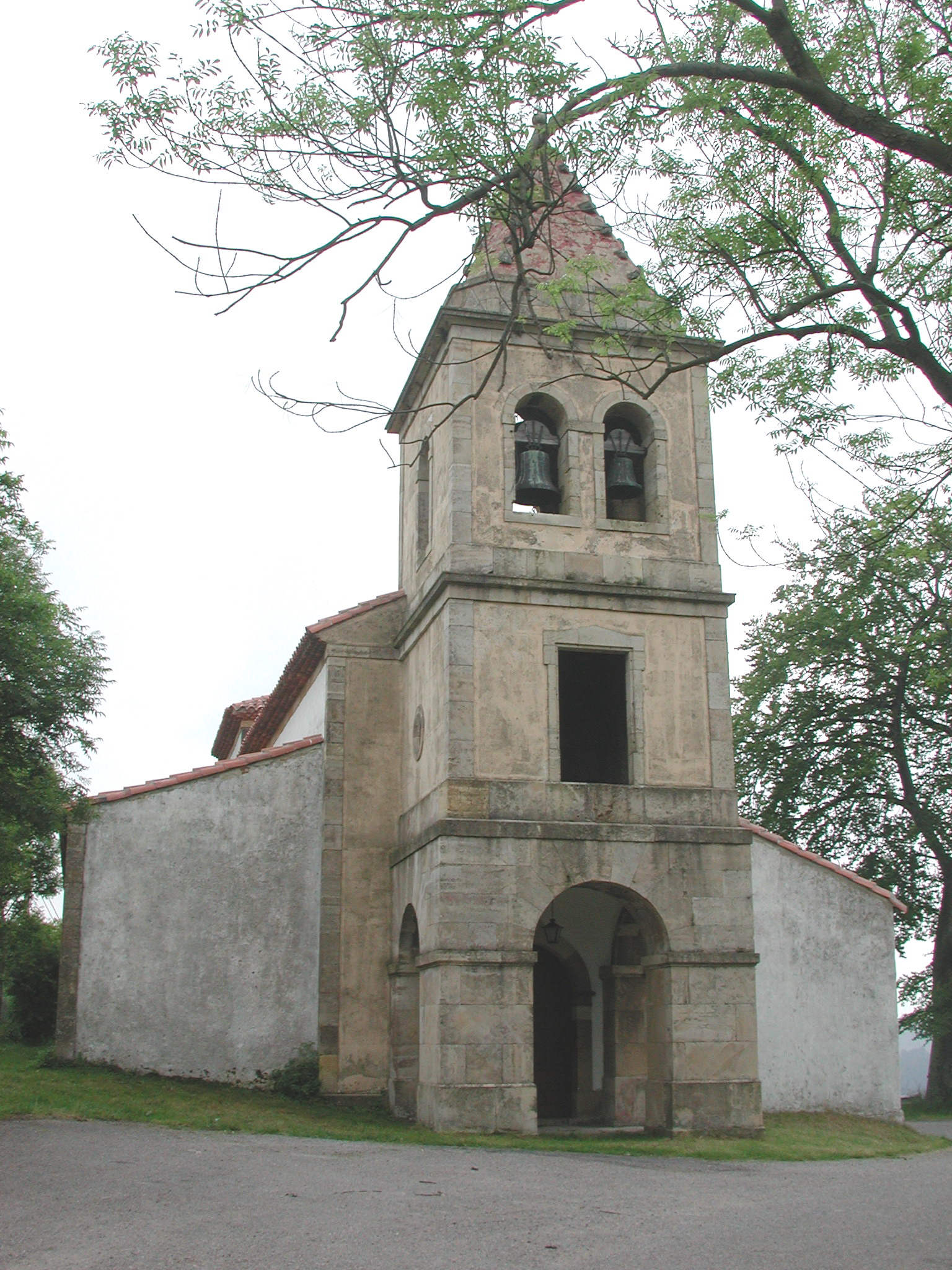 Front view of the church of Saint Michael of Villardeveyo (Llanera-Asturias-Spain)